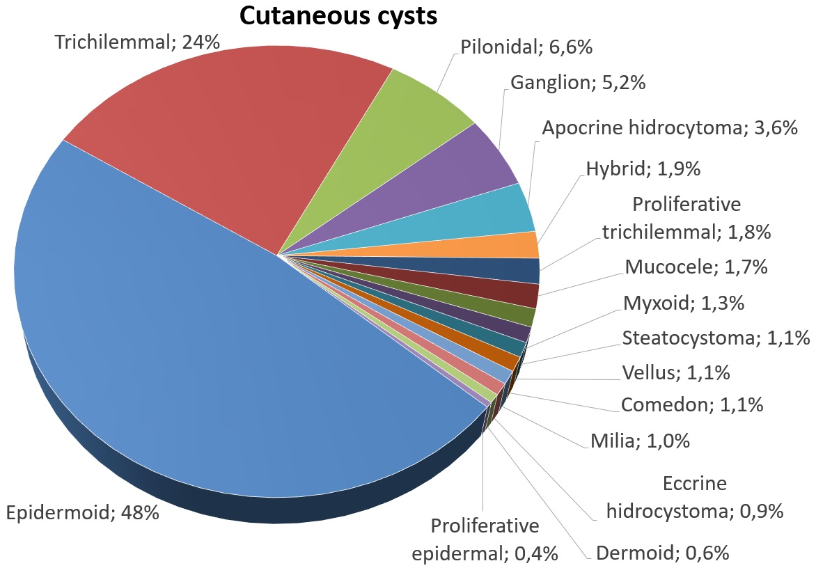 Relative incidence of cutaneous cysts in Pakistan. Reference: (2020). "Cutaneous cysts: a clinicopathologic analysis of 2,438 cases". International Journal of Dermatology. ISSN 0011-9059.